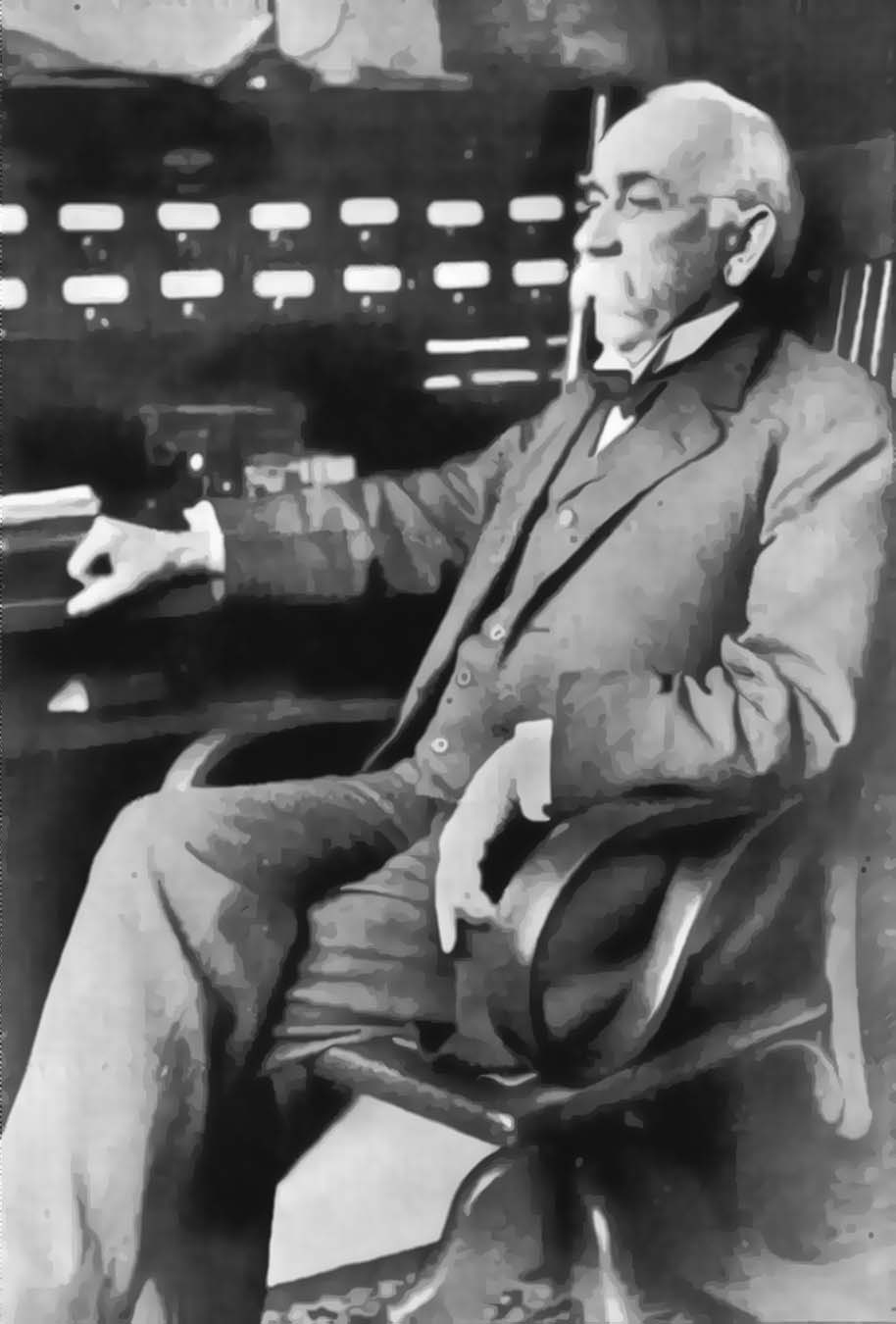 Portrait of George Williams Peckham, American archnologist